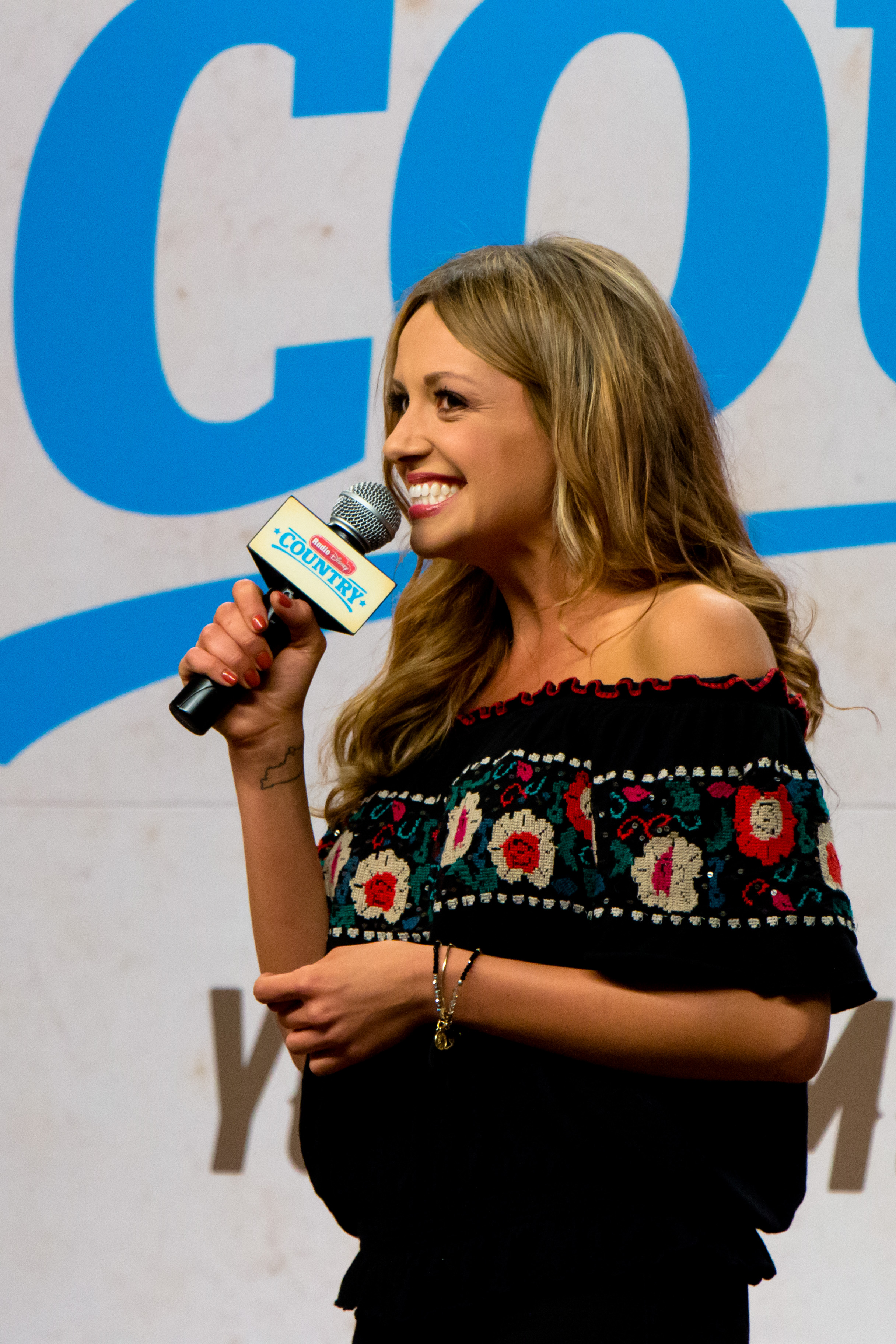 Carly Pearce at CMA Fest 2017